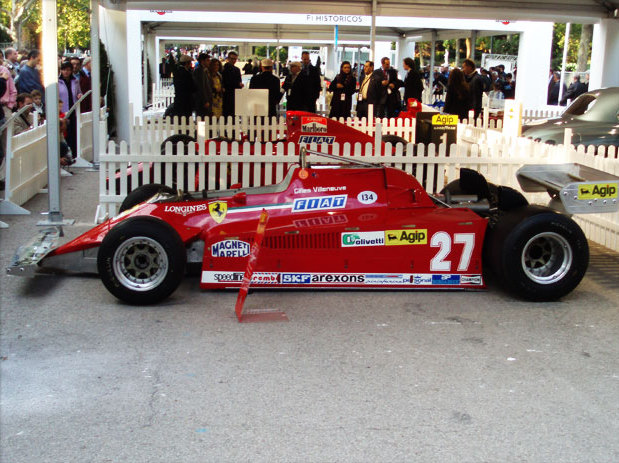 Ferrari 126CK at Goodwood Festival Of Speed